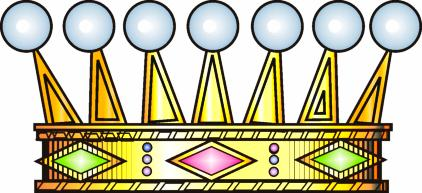 Barons crown